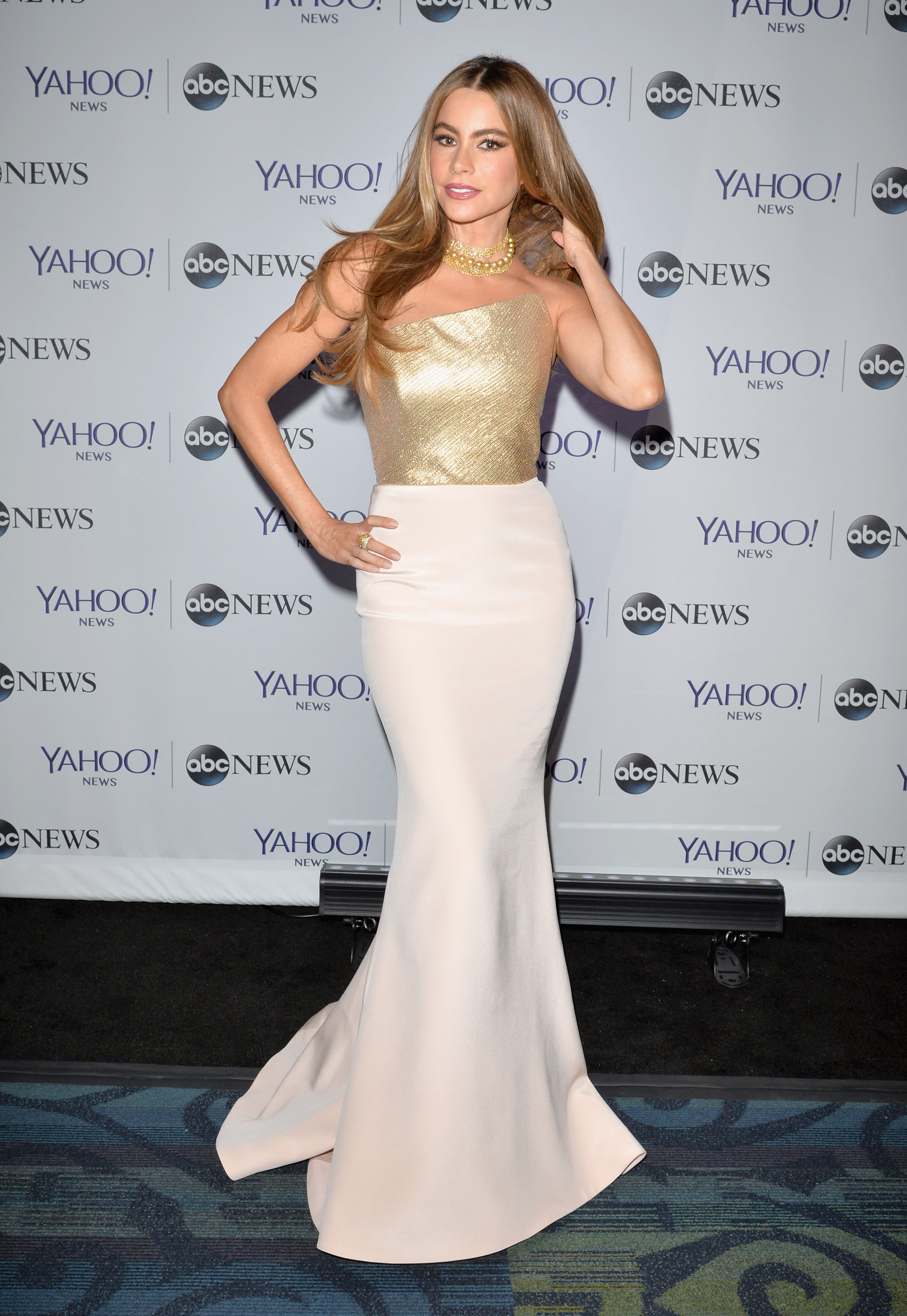 WASHINGTON, DC - MAY 03: Actress Sofía Vergara attends the Yahoo News/ABCNews Pre-White House Correspondents' dinner reception pre-party at Washington Hilton on May 3, 2014 in Washington, DC. (Photo by Andrew H. Walker/Getty Images for Yahoo News)